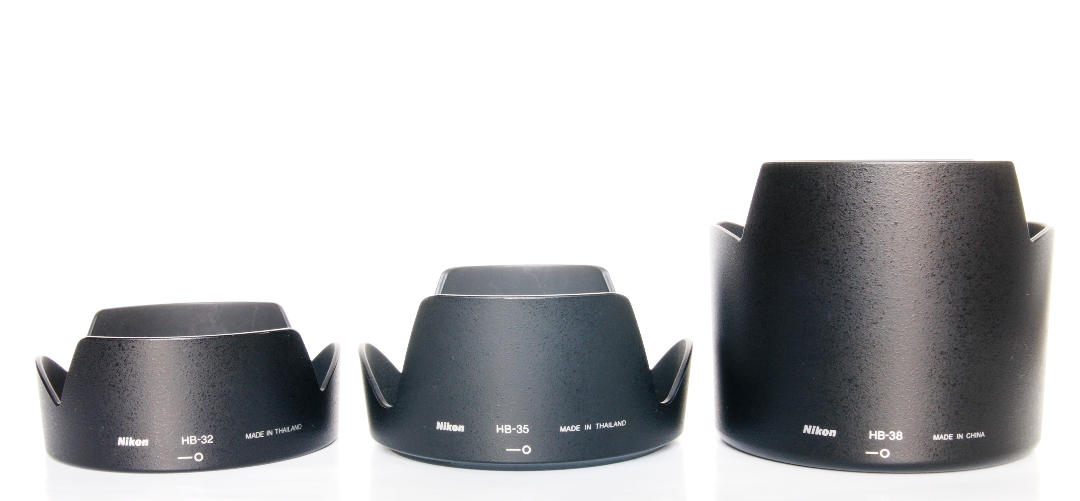 Three flower-shaped plastic bayonet lens hoods for Nikkor lenses, from left to right: HB-32 (⌀ 67 mm, intended for the AF-S DX 18-70mm f3.5-4.5G ED-IF), HB-35 (⌀ 72 mm, intended for the AF-S VR DX 18-200mm f/3.5-5.6G IF-ED) and HB-38 (⌀ 62 mm, intended for the AFS VR 105 mm f2.8 IF-ED).